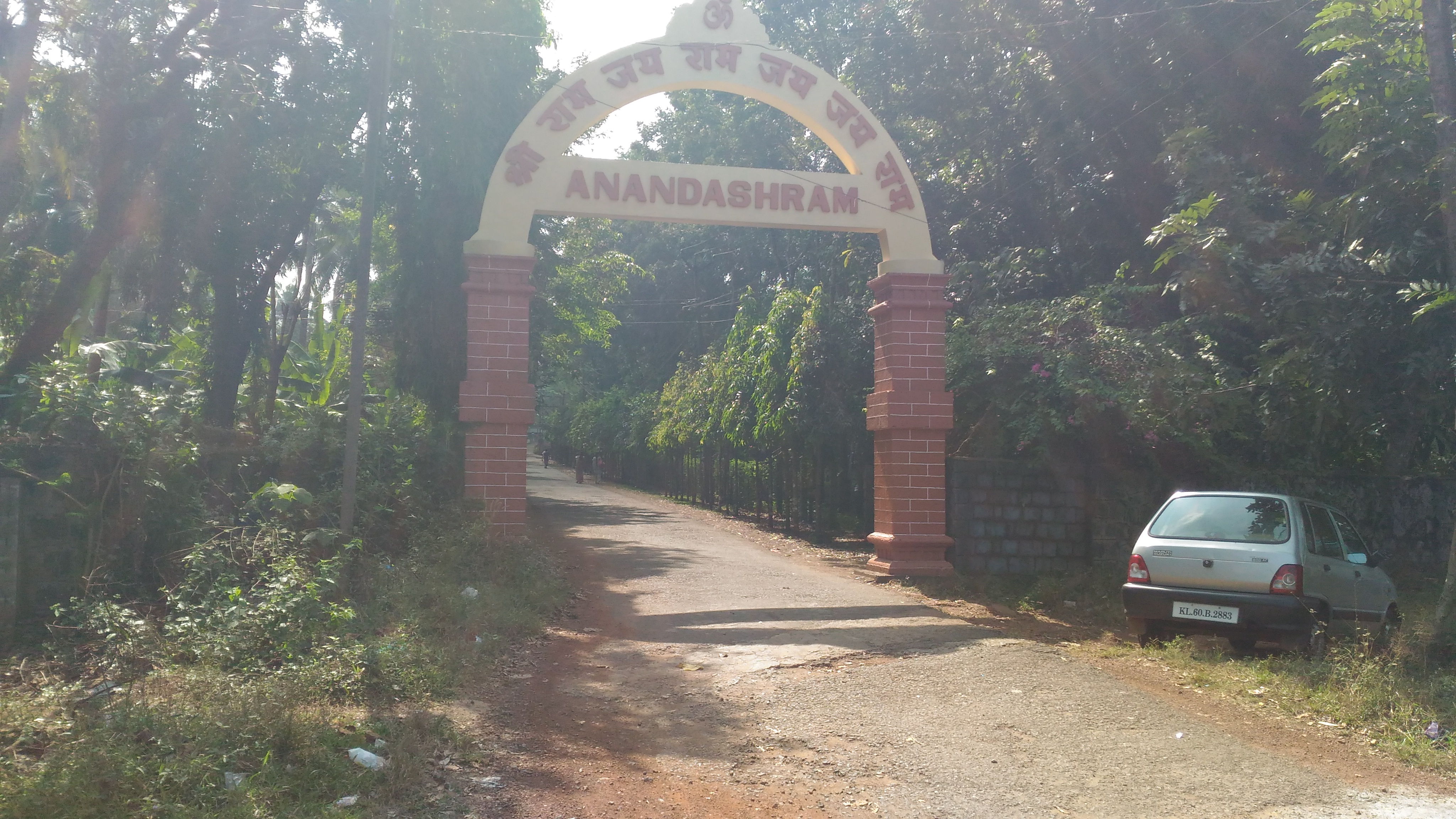 Anandasram_kanhangad main entrance